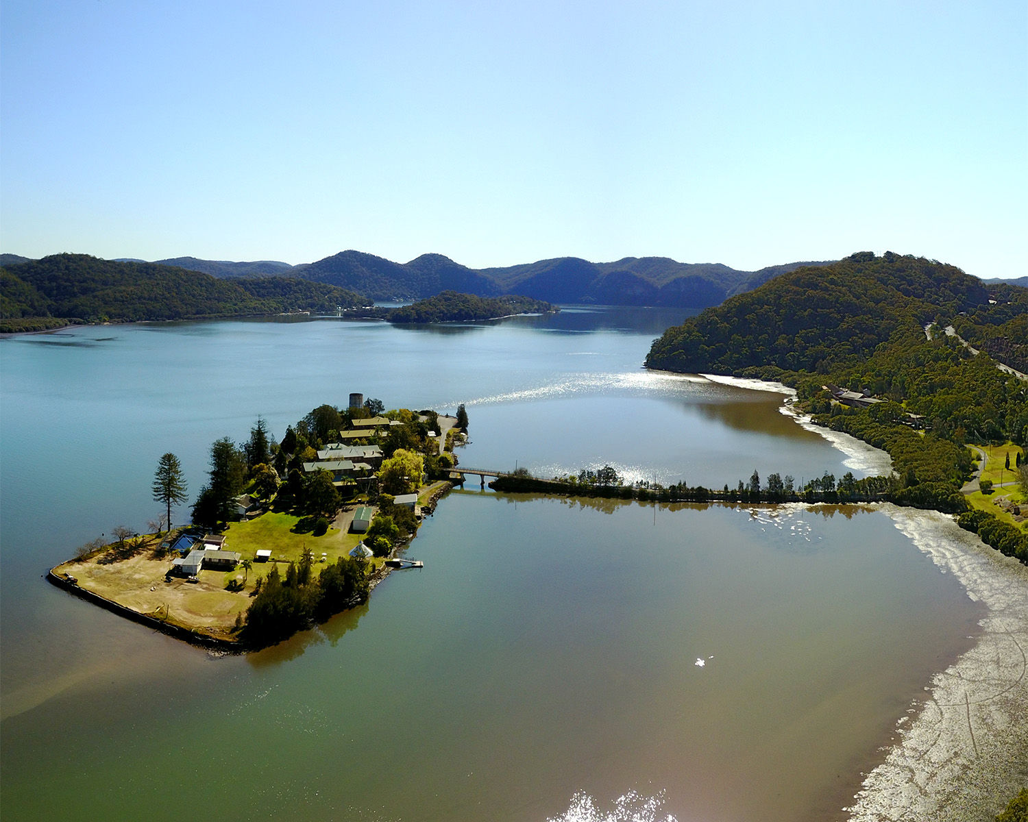 Aerial panorama of Peat Island on the Hawkesbury River